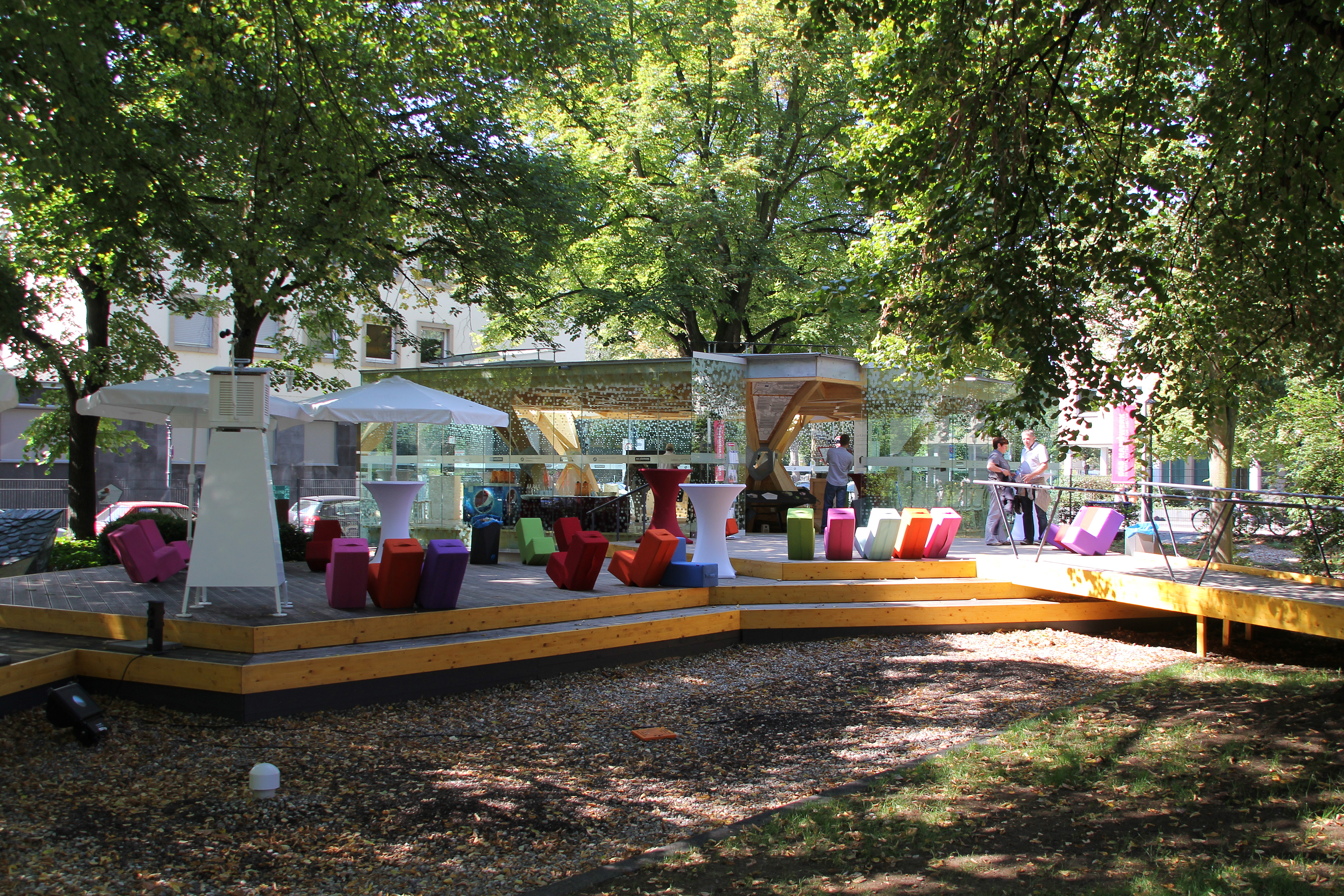 Federal Horticultural Show 2011 in Koblenz - Blumenhof at Deutsches Eck